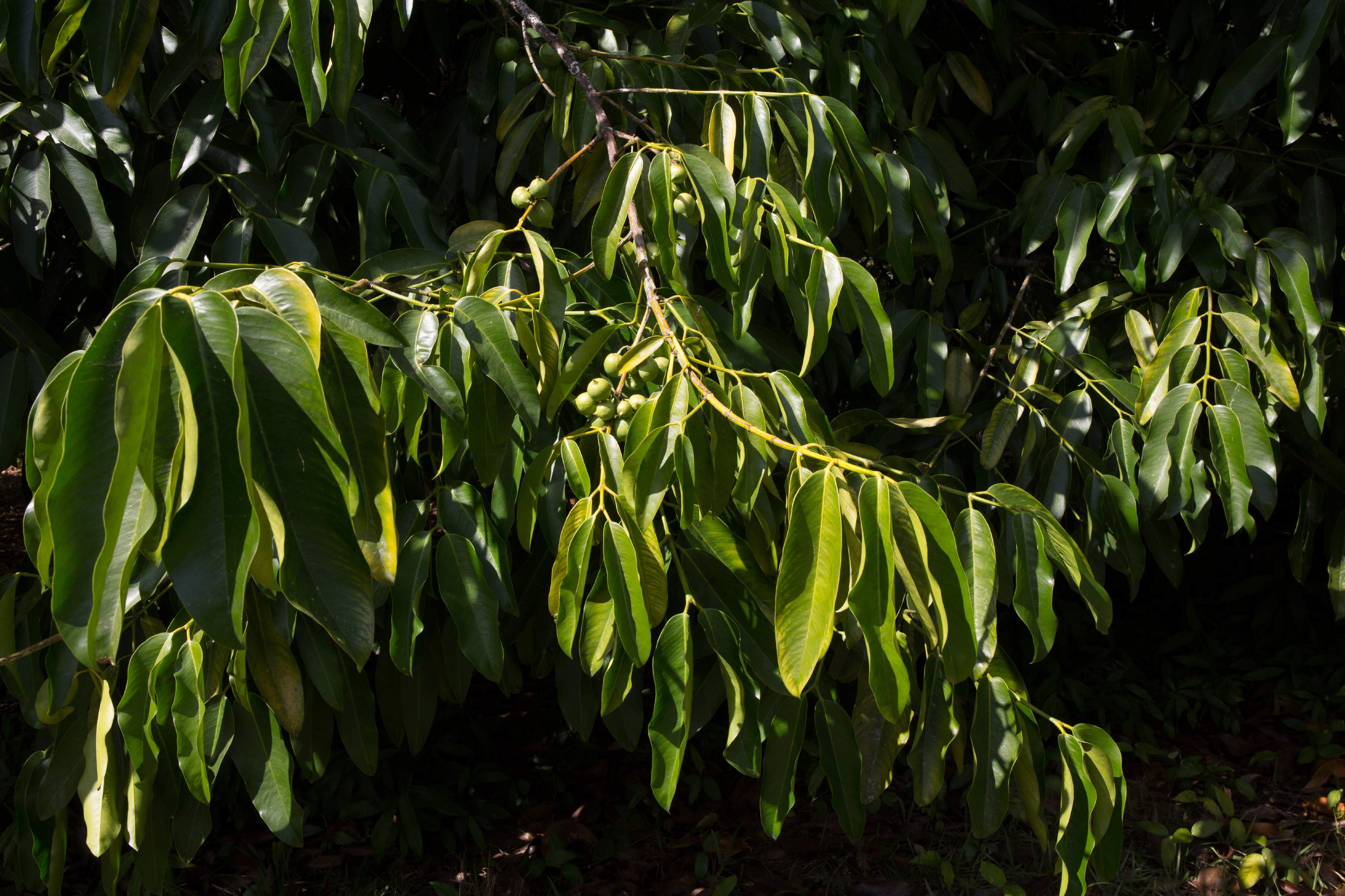 Garcinia dulcis in the botanical garden Cupaynicú in Guisa, Granma, Cuba